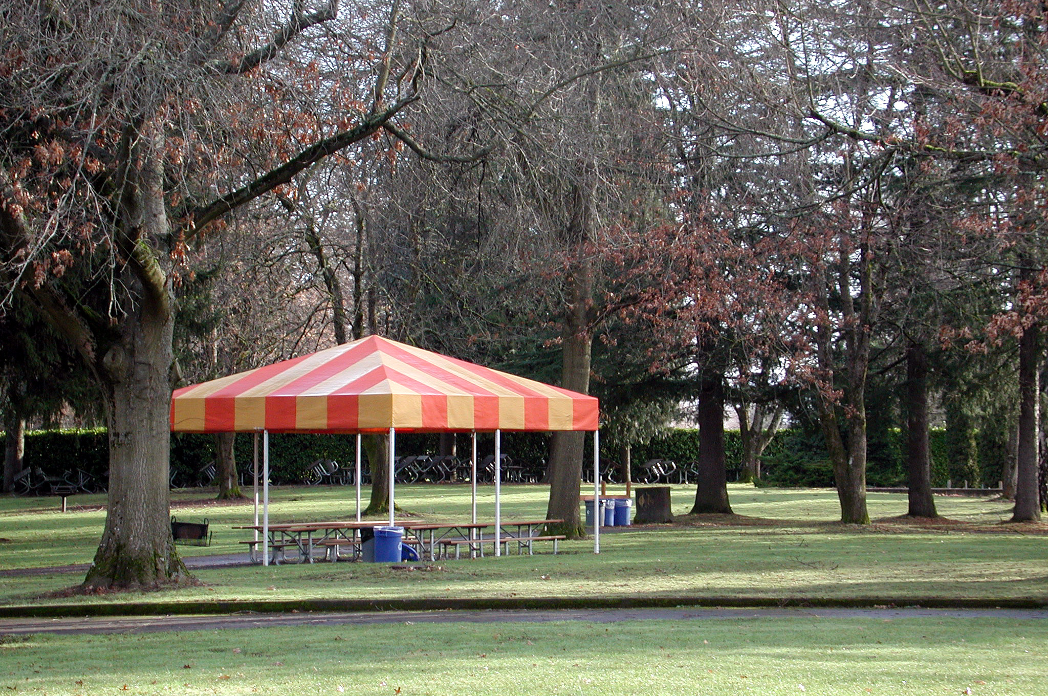 Covered picnic table at Blue Lake Regional Park in Fairview, Oregon.